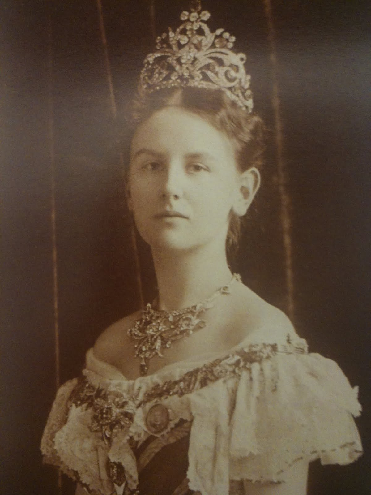 Queen Wilhelmina of the Netherlands, 1901